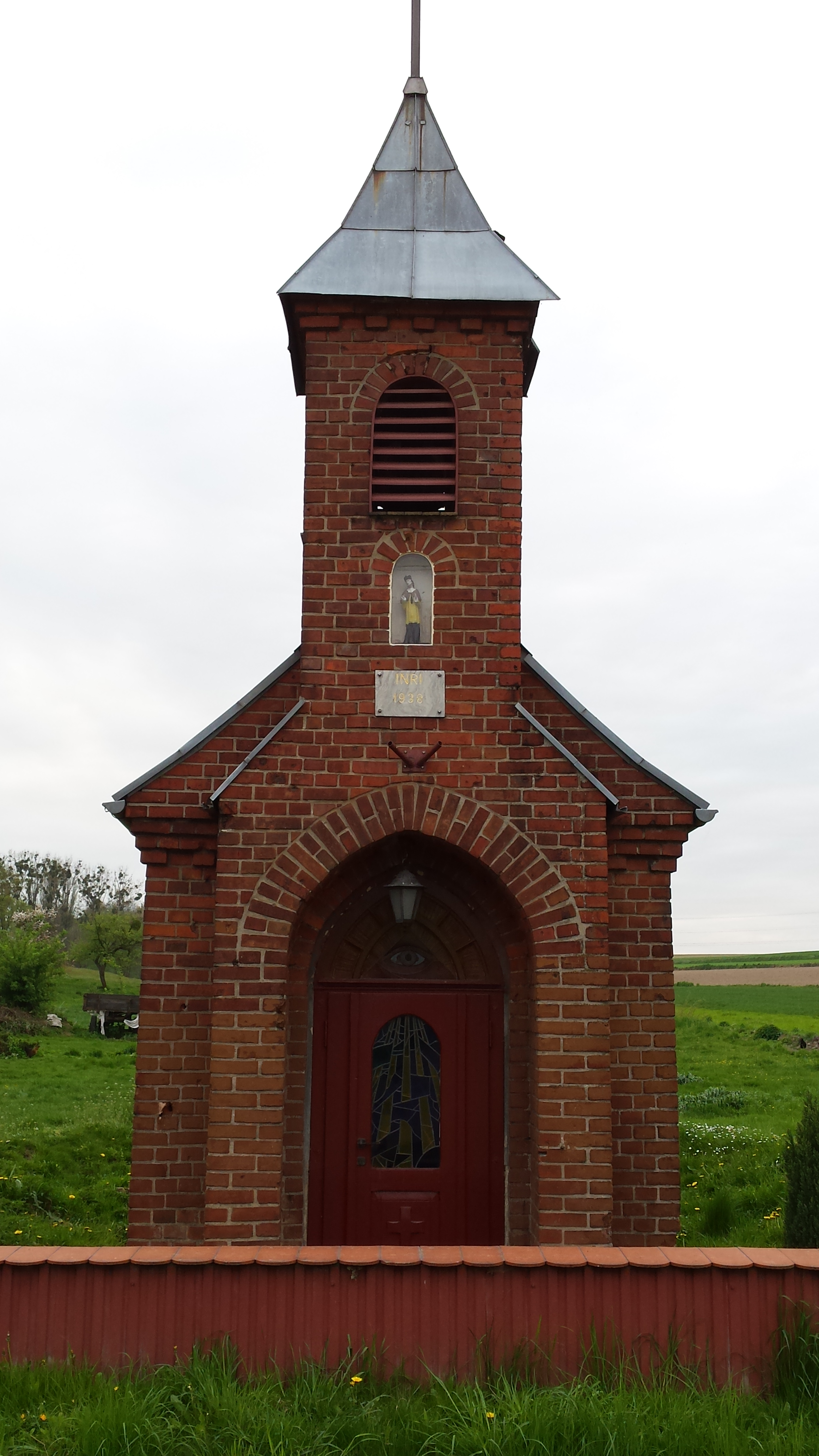 Chapelle in Grzegorzowice-Gacki